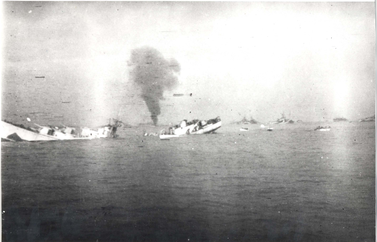 British destroyer HMS Swift sinking after mine explosion.